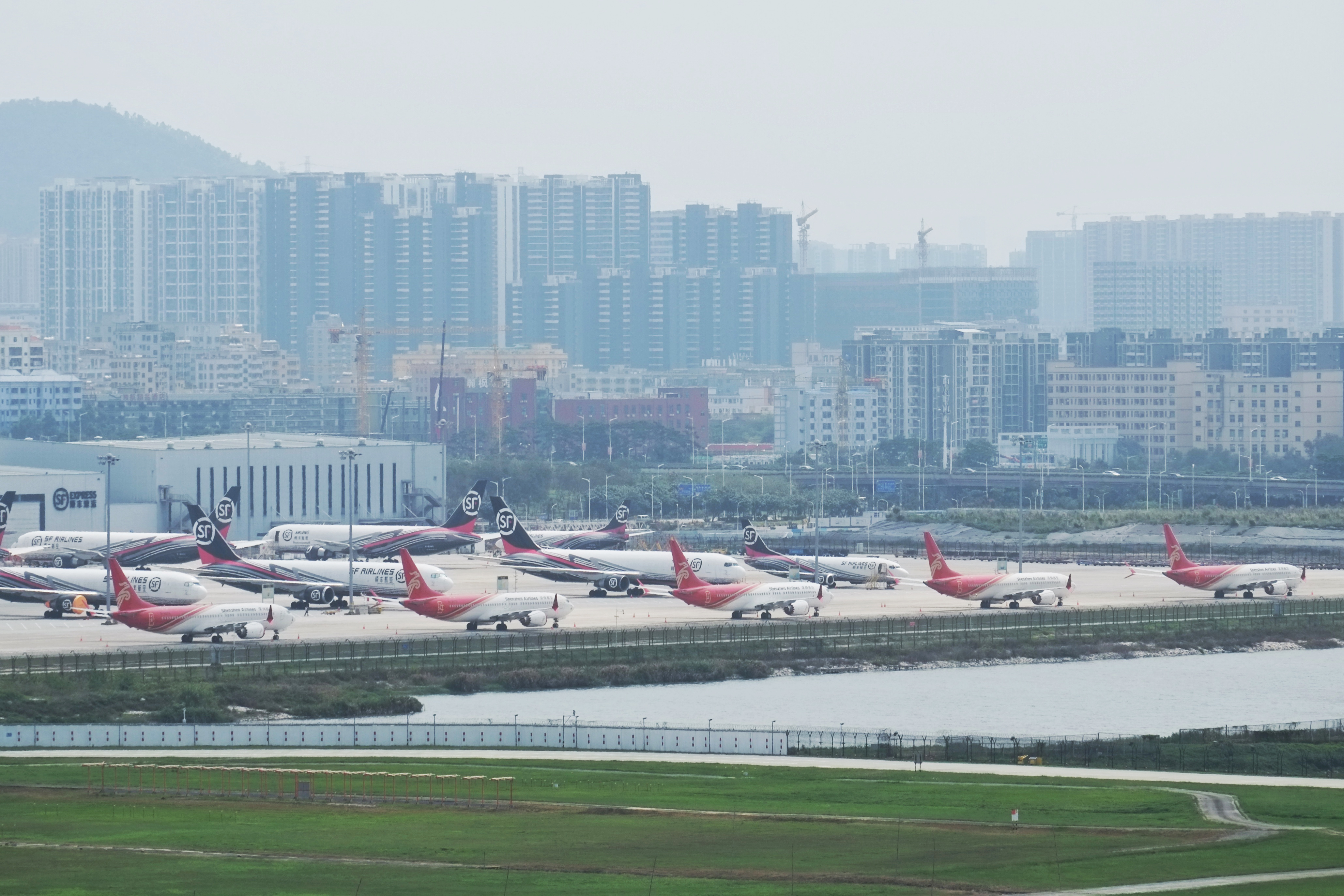 All Boeing 737 MAX 8 aircraft in China have been grounded since 11 March 2019， following the crash of Ethiopian Airlines Flight 302